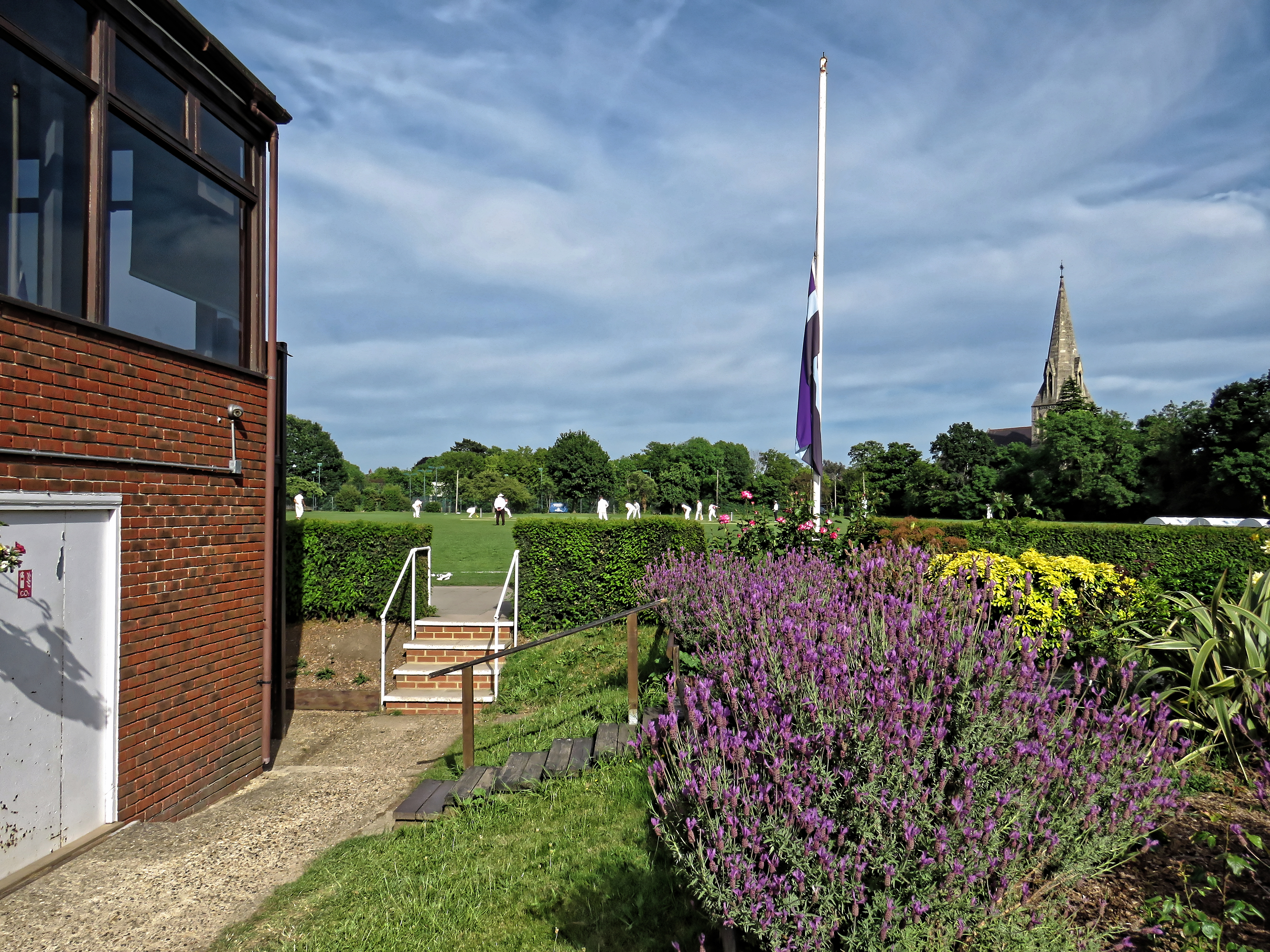 Walker Cricket Ground and garden during a June 2019 Saturday public Middlesex County Cricket League match between Southgate Cricket Club[1] 2nd XI and Stanmore Cricket Club 2nd XI at the Walker Cricket Ground, Waterfall Road, Southgate, Enfield, London, England.Mobile device view: Wikimedia (as at June 2019) makes it difficult to immediately view photo groups related to this image. To see its most relevant allied photos, click on Southgate Cricket Club, Stanmore Cricket Club, Minor cricket clubs of London, and this uploader's Cricket photos. You can add a click-through 'categories' button to the very bottom of photo-pages you view by going to settings... three-bar icon top left.Desktop view: Wikimedia (as at June 2019) makes it difficult to immediately view the helpful category links where you can find images related to this one in a variety of ways; for these go to the very bottom of the page.This image is one of a series of date and/or subject allied consecutive photographs kept in progression or location by file name number and/or time marking.Camera: Canon PowerShot SX60 HSSoftware: File lens-corrected, optimized, perhaps cropped, with DxO PhotoLab 2 Elite, and likely further optimized with Adobe Photoshop CS2.